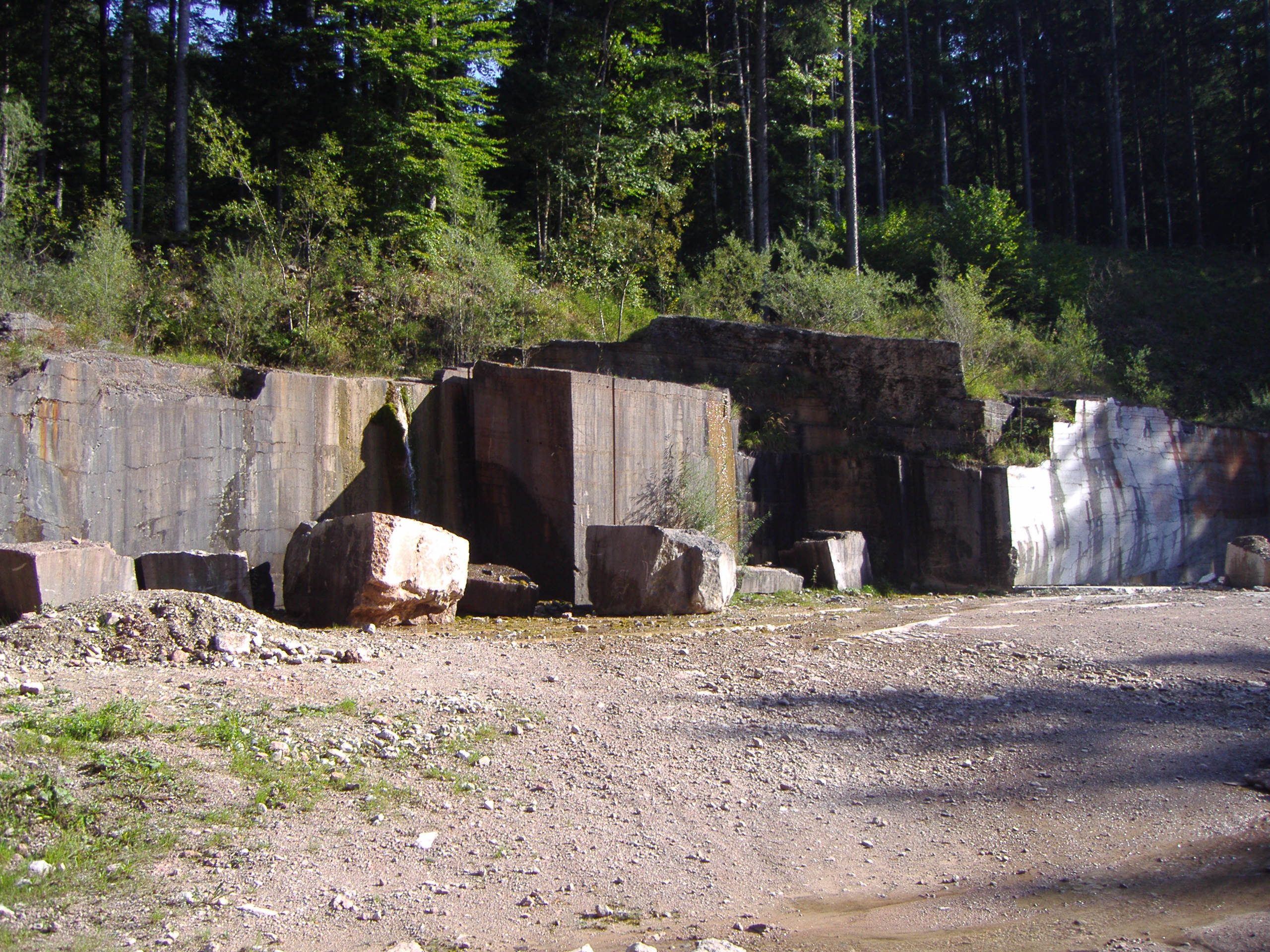 Rot-Grau-Schnöllbruch in Adnet, Austria. Owner: Österreichische Bundesforste, Renter: Marmor Kiefer. The name "Schnöll" was coined from the previous owner. The "Marble" in this quarry is rich of fossil, misced red and grey "Enzersfelder Kalk". It was deposited 175-195 Millions years ago in the alpine jurassic. 24 columns (1,10 m diameter, 8,10 high, 18 tons) for the Austrian Houses of Parliament were mined and manufactured from 1875-92 in this quarry.